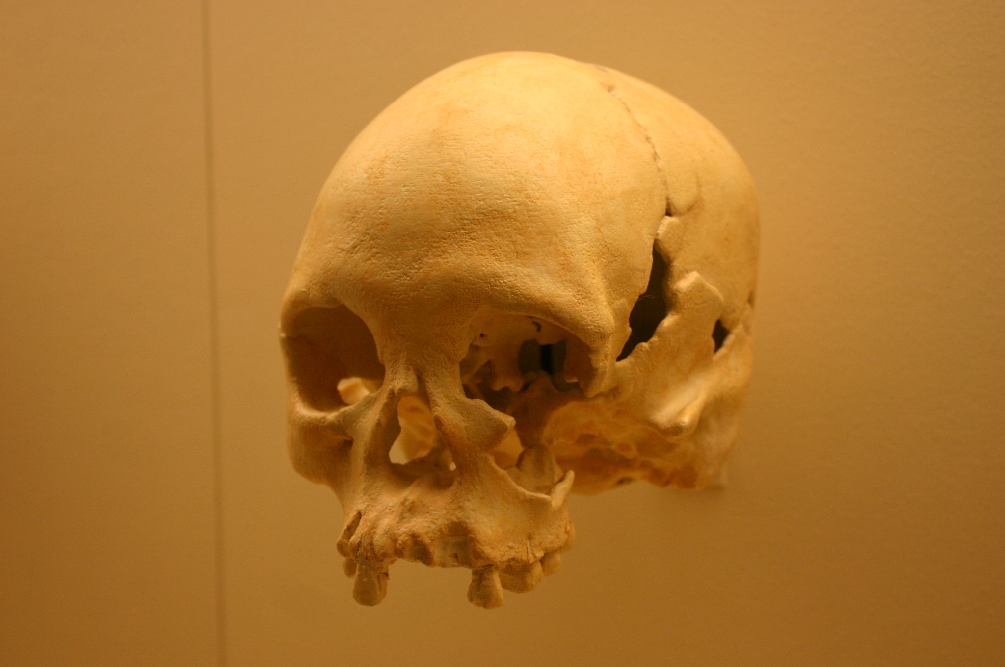 Homo sapiens Lapa Vermelha IV Hominid 1, "Luzia" Minas Gerais, Brazil About 11,500 years old Cast Taken at the David H. Koch Hall of Human Origins at the Smithsonian Natural History Museum.